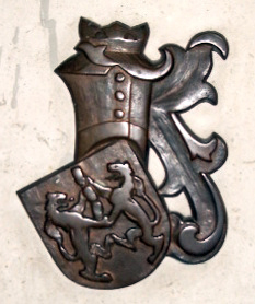 Coat of Arms of Francesco Cristoforo Frangipani Count Fran Krsto Frankopanovich, also containing the Coat of Arms of the House of Frankapani (two heraldic lions breaking bread), from the Zagreb Cathedral.Srpskohrvatski / српскохрватски: Grb Frana Krste Frankapana koji sadrži i grb obitelji Frankapani (dva lava koji lome kruh) u zagrebačkoj katedrali